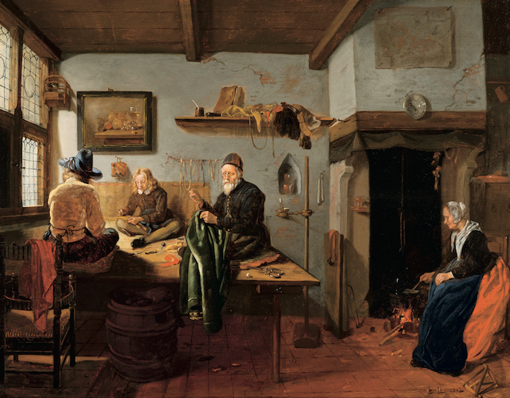 Interior of a Tailor’s Workshop by Quiringh van Brekelenkam, about 1655-1660, oil on wood, 57.5 x 73.2 cm, Montreal Museum of Fine Arts